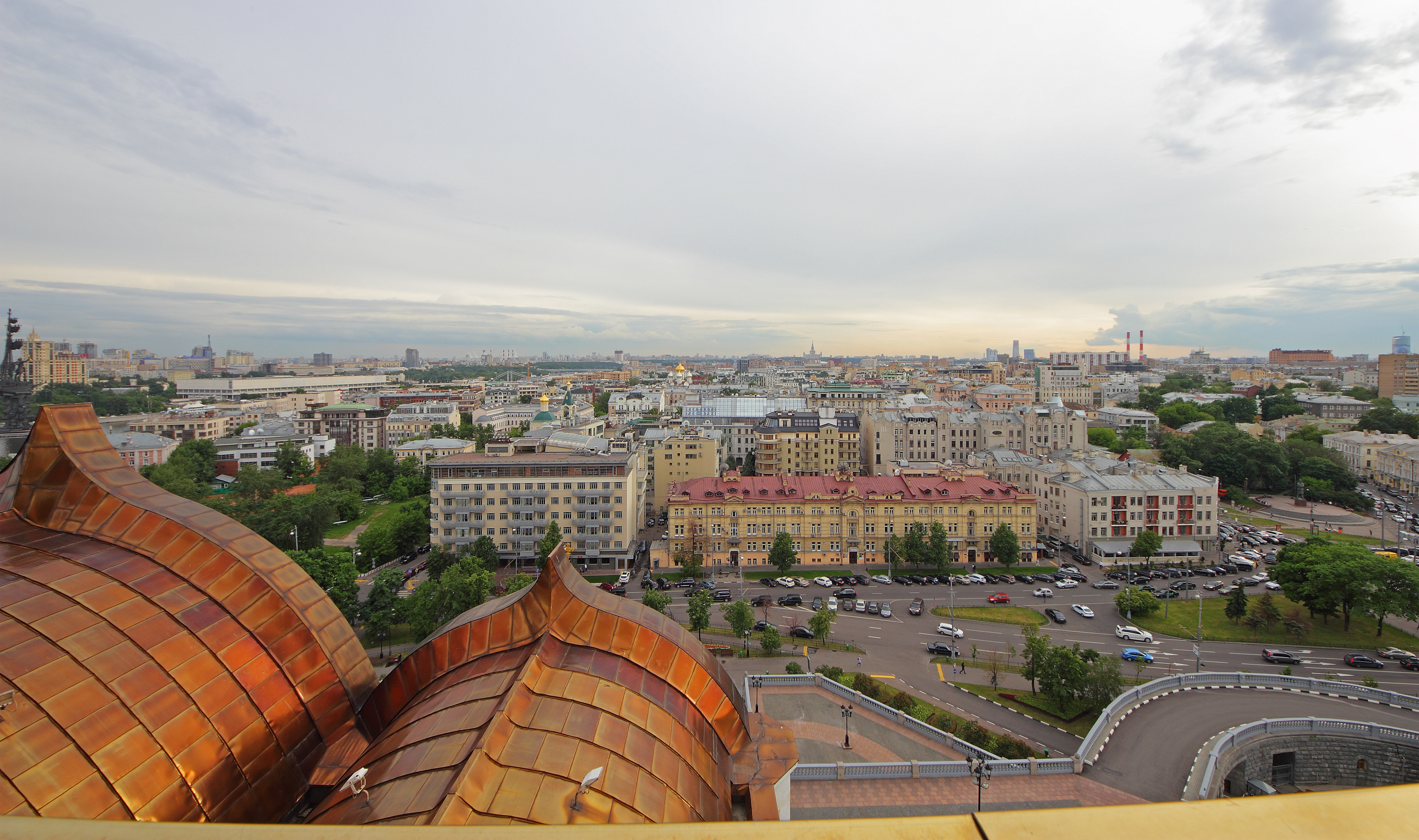 View from one of the four visitor's viewing platforms of the Cathedral of Christ the Saviour in Moscow.